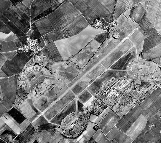 Chambley-Bussieres Air Base - Aerial Photo - 2003